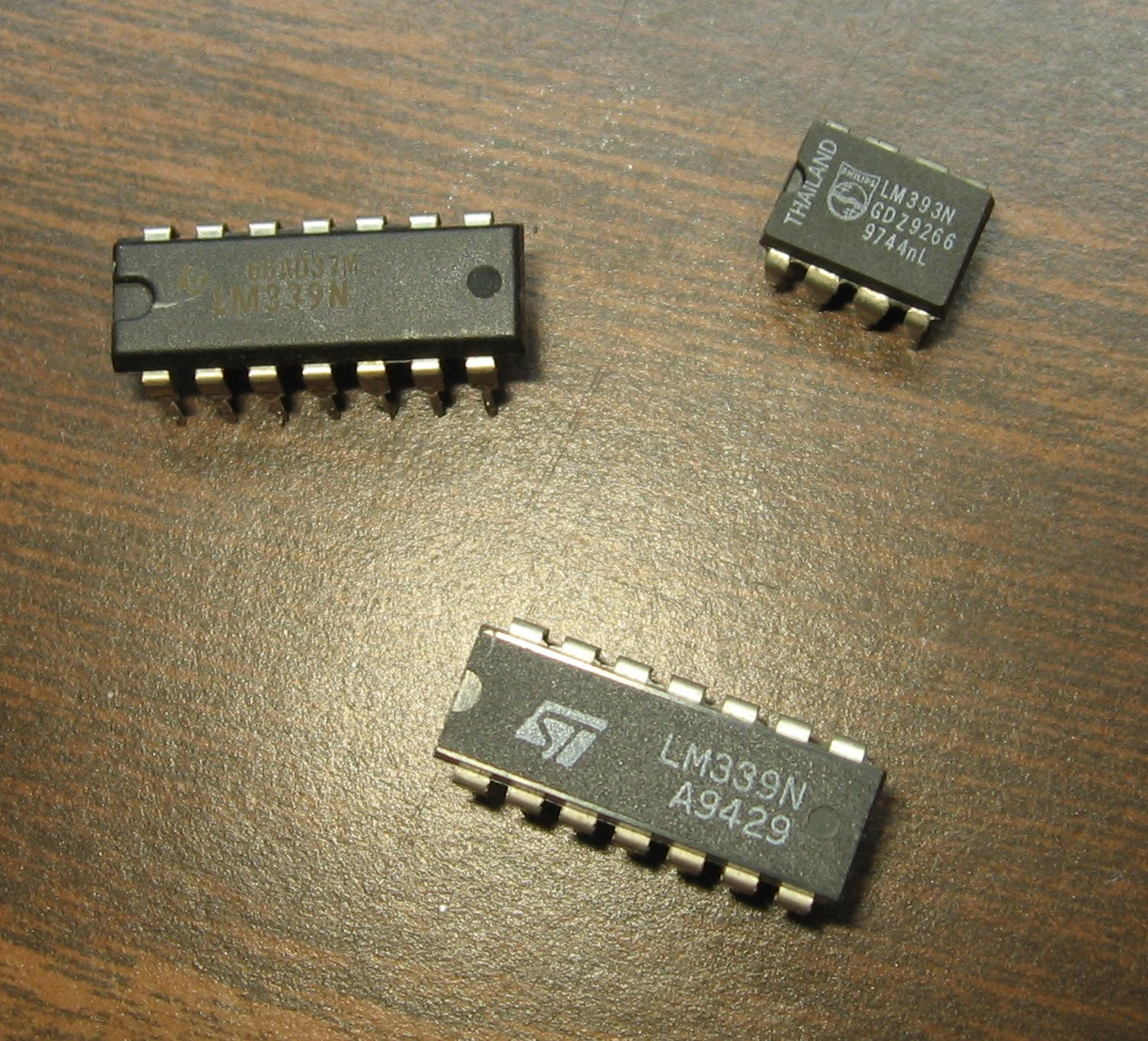 Three comparator chips in DIP packages.